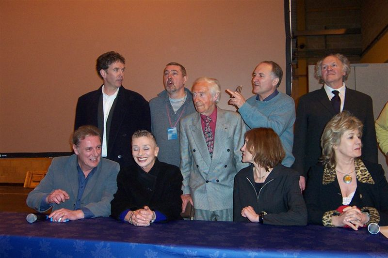 British television programme Blake's 7 cast at the series 1 DVD launch, London Film and Comic Con March 6 and 7, 2004. Left to right, back row, standing: Steven Pacey (Tarrant), Brian Croucher (Travis), Peter Tuddenham (voices of Orac, Slave, Zen), Michael Keating (Vila), David Jackson (Gan). Front row, seated: Paul Darrow (Avon), Jacqueline Pearce (Servalan), Jan Chappell (Cally), Sally Knyvette (Jenna).